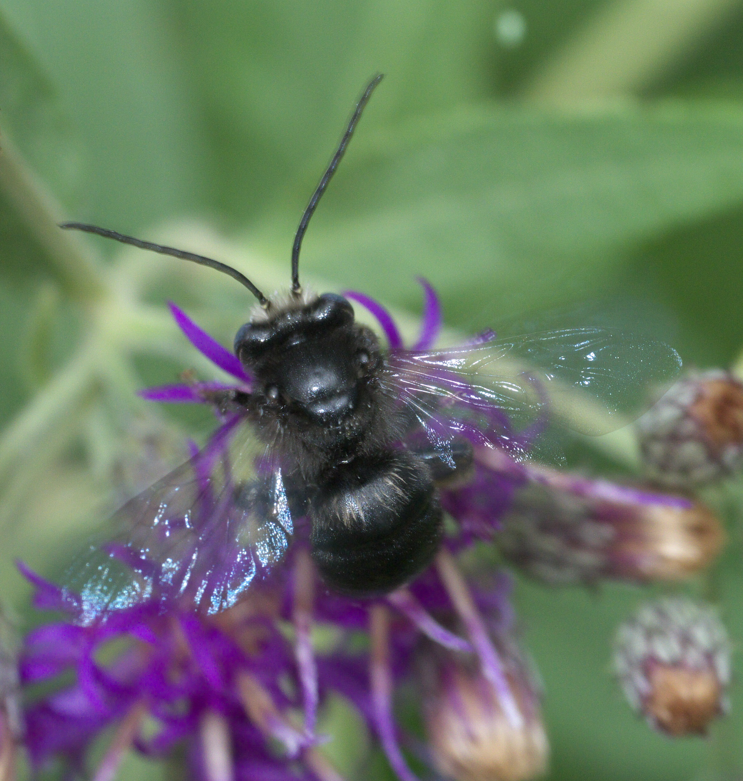 Melissodes bimaculatus, Two-spotted Longhorn, Size: 12 mm, ID Confidence: 98